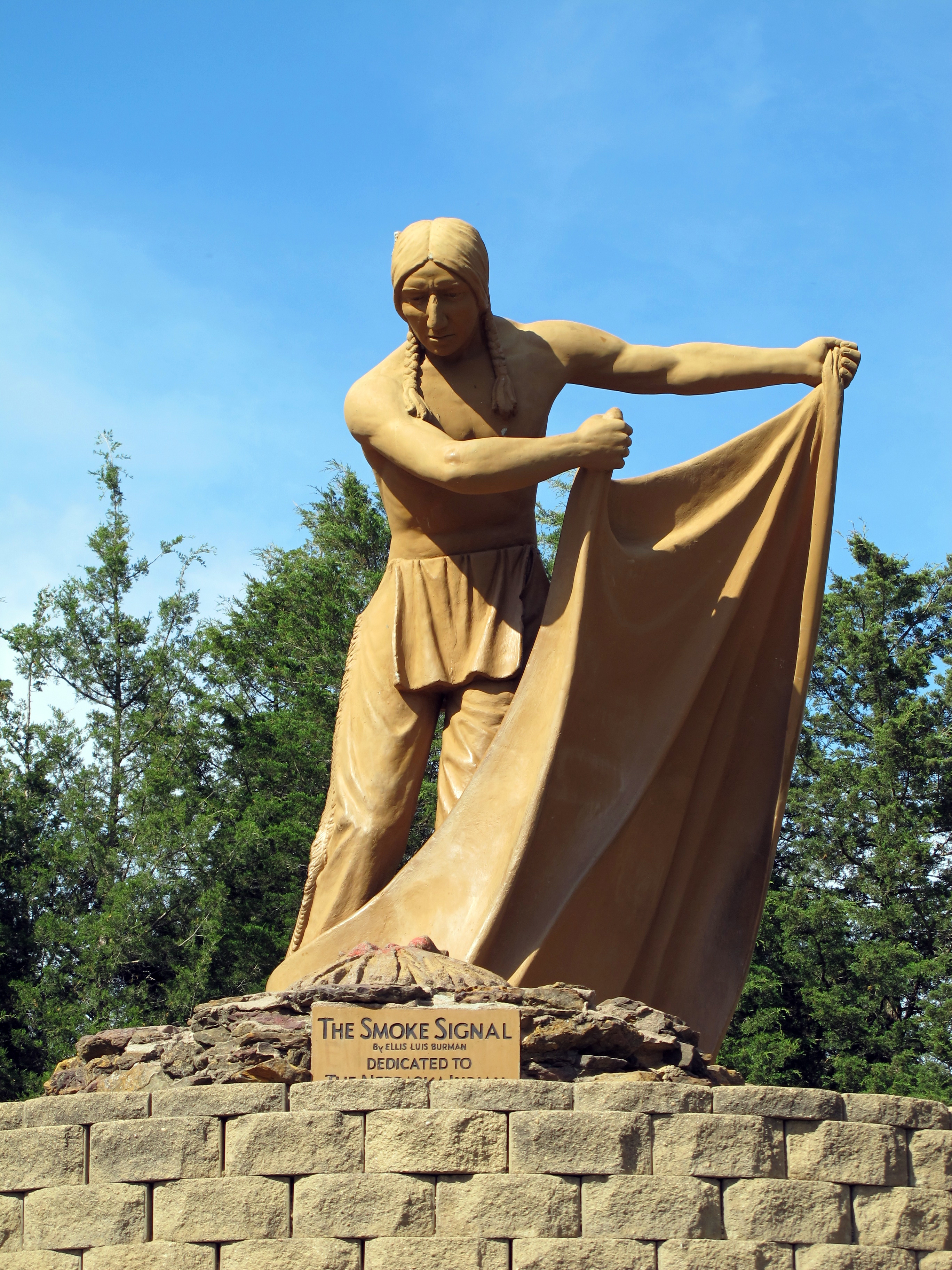 Photo of "The Smoke Signal" (1935), a statue dedicated to the Nebraska Indian, by Ellis Luis Burman; as seen in Pioneers Park near Lincoln, Nebraska. Photo is looking northeast towards the front of the statue.